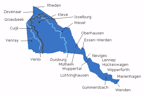 Kleverlands.